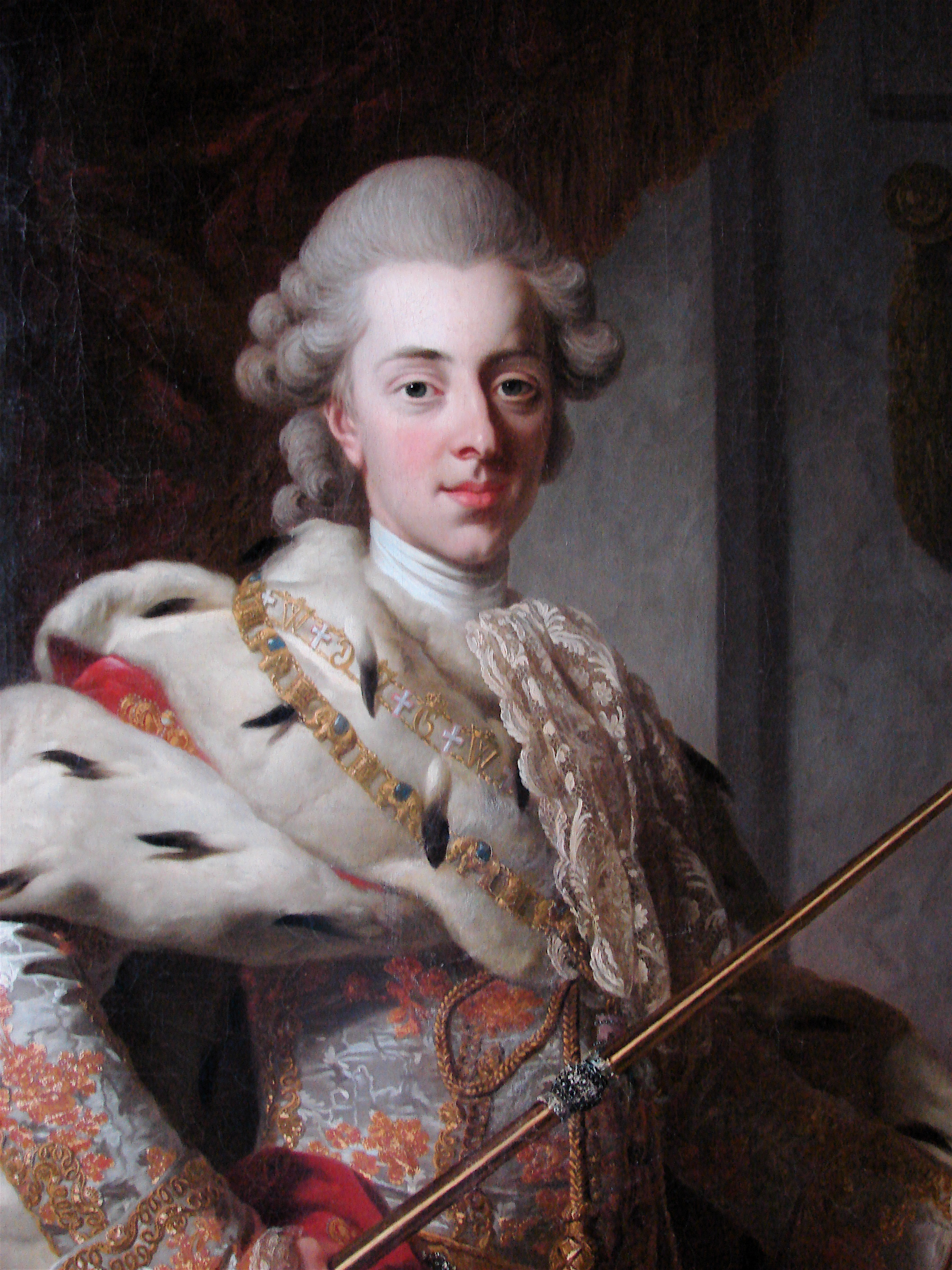 Cropped version.